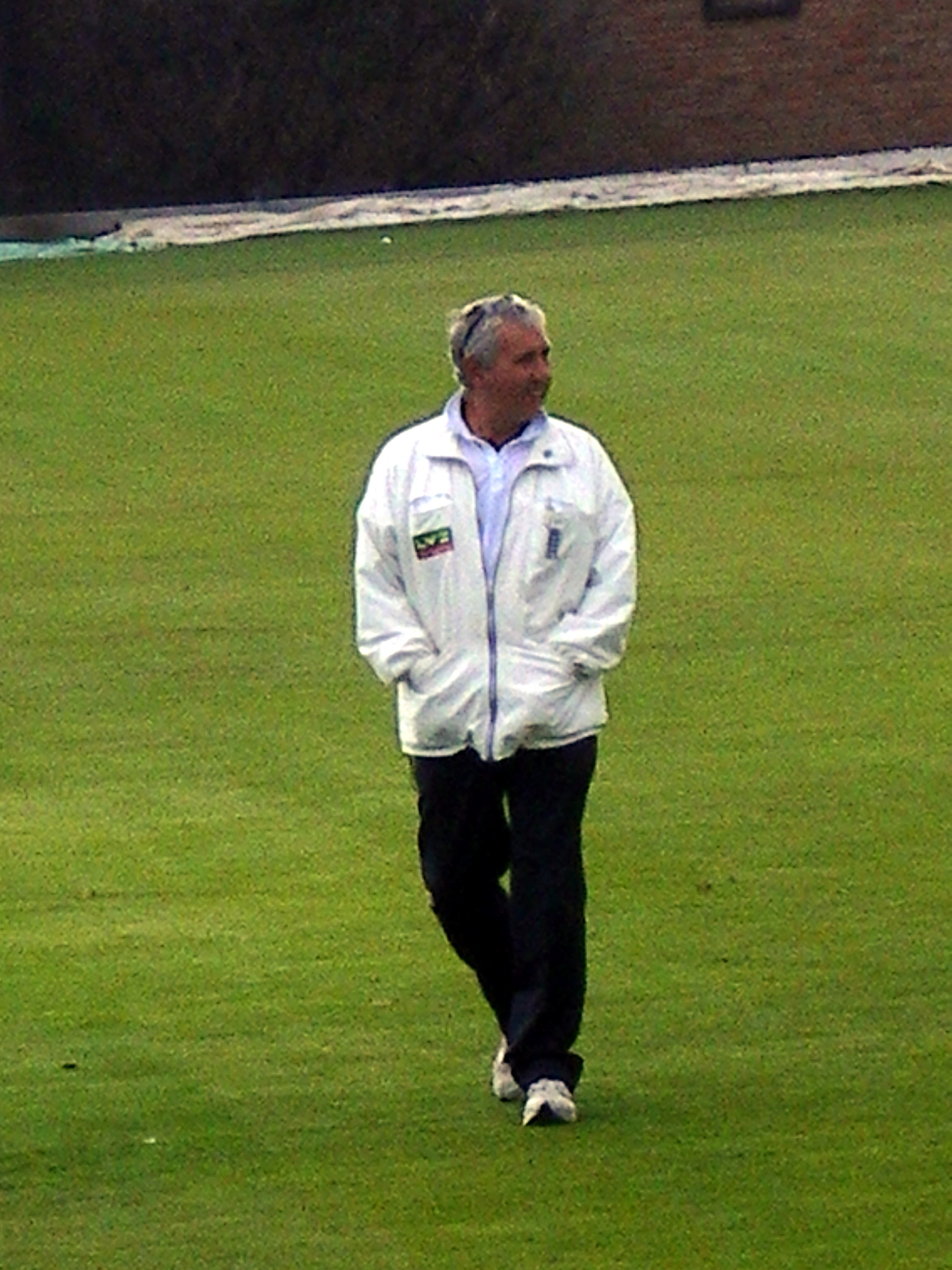 Barrie Leadbeater umpiring at North Marine Road, Scarborough in his last first-class cricket game